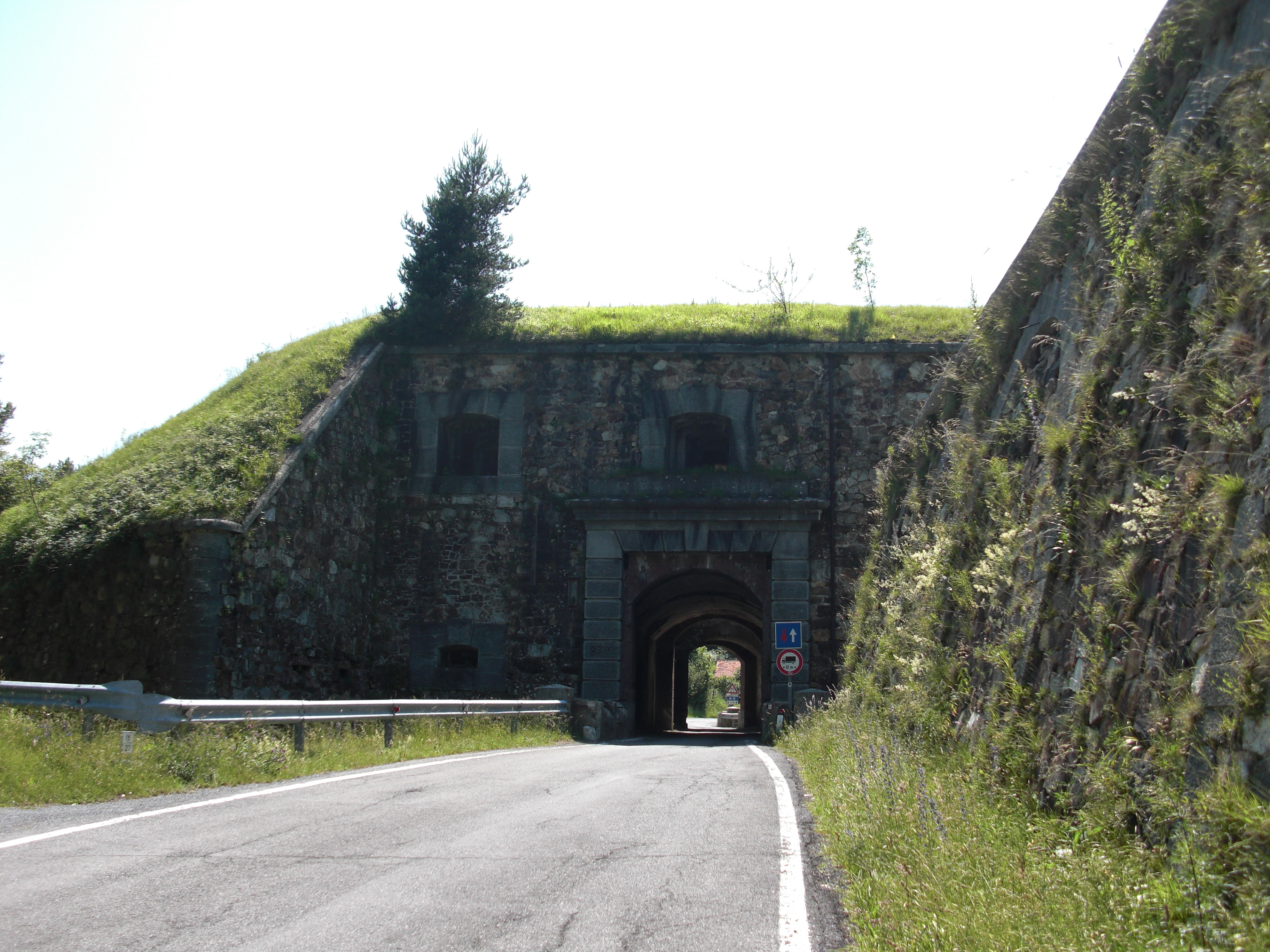 Colle del Melogno: Passing through the fortress at the top of the pass